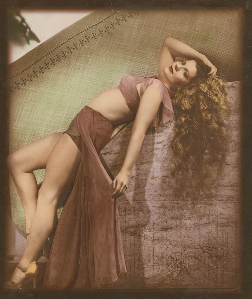 Studio portrait of Jean Garling as dancer circa 1943, taken by John Lee